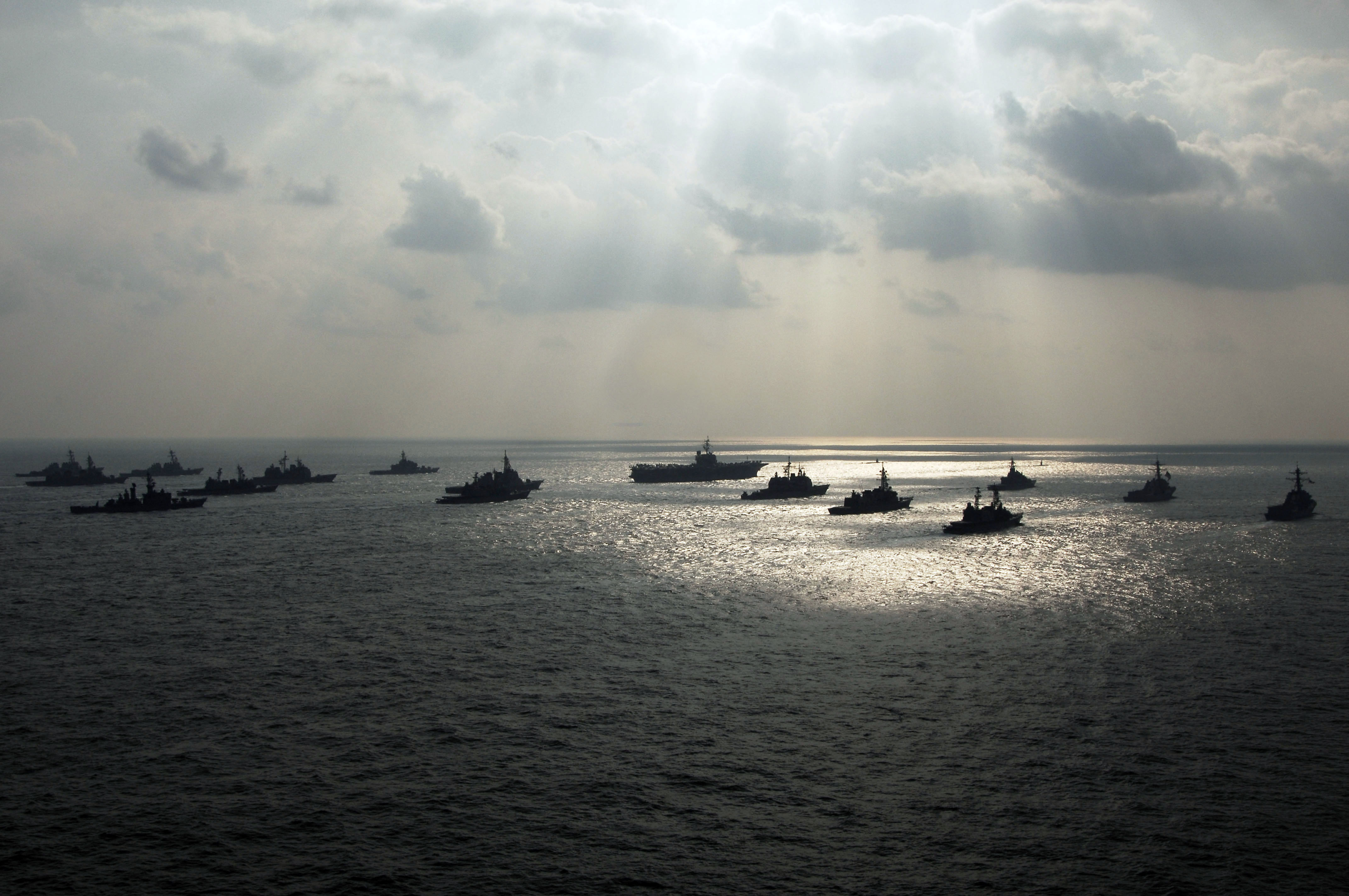 PHILIPPINE SEA (Nov. 16, 2007) Nineteen American and Japan Maritime Self-Defense Forces (JMSDF) ships transit together at the end of ANNUALEX 19G, the maritime component of the U.S.-Japan exercise Keen Sword '08 for a group photo. The exercise was designed to increase interoperability between the United States and JMSDF and increase their ability to effectively and mutually respond to a regional crisis situation. U.S. Navy photo by Mass Communication Specialist Seaman Stephen W. Rowe (Released)